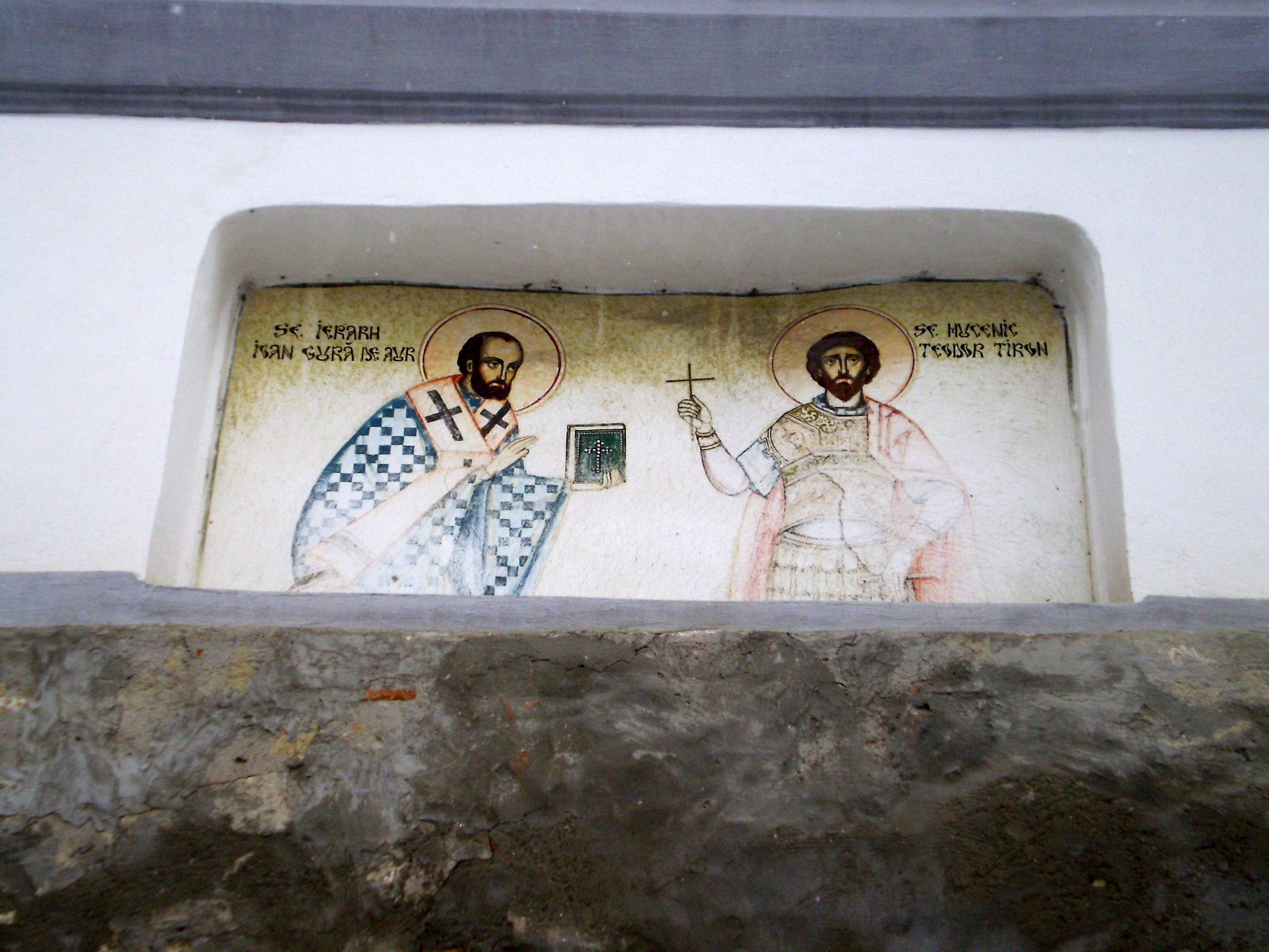 Iaşi , Zlataust Church , icon above the entrance , Iaşi , Romania